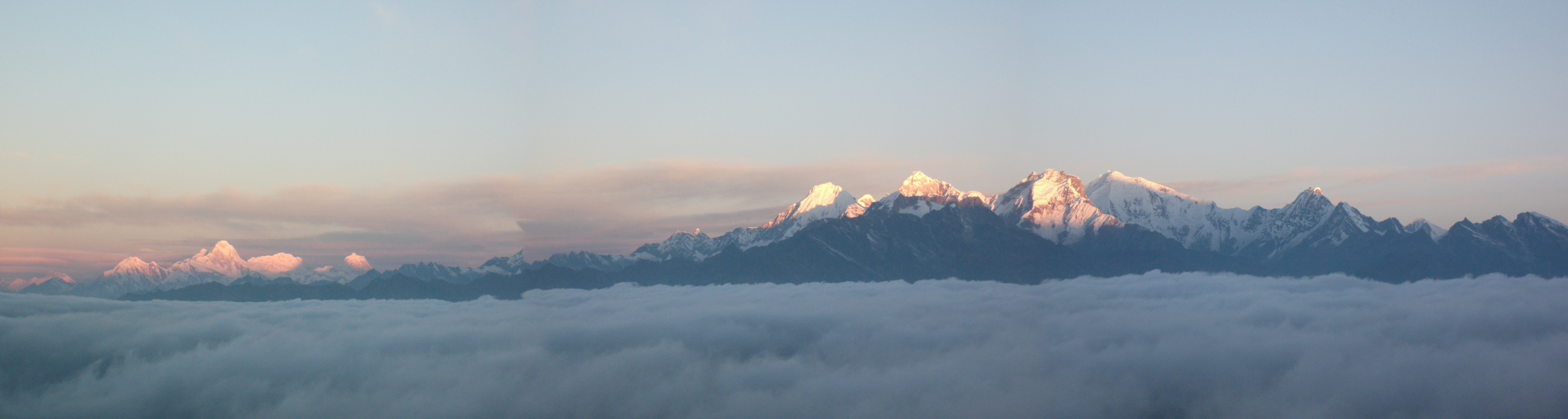 Langtang